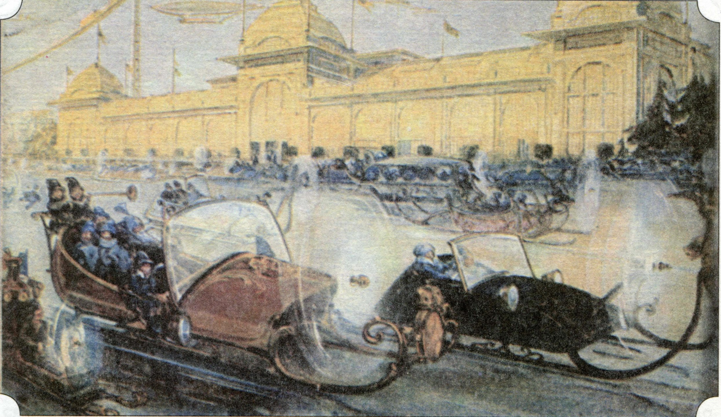 Moscow in XXIII Century. SPb Shosse. . Russian Empire postcard, Einem Factory, 1914, Moscow.